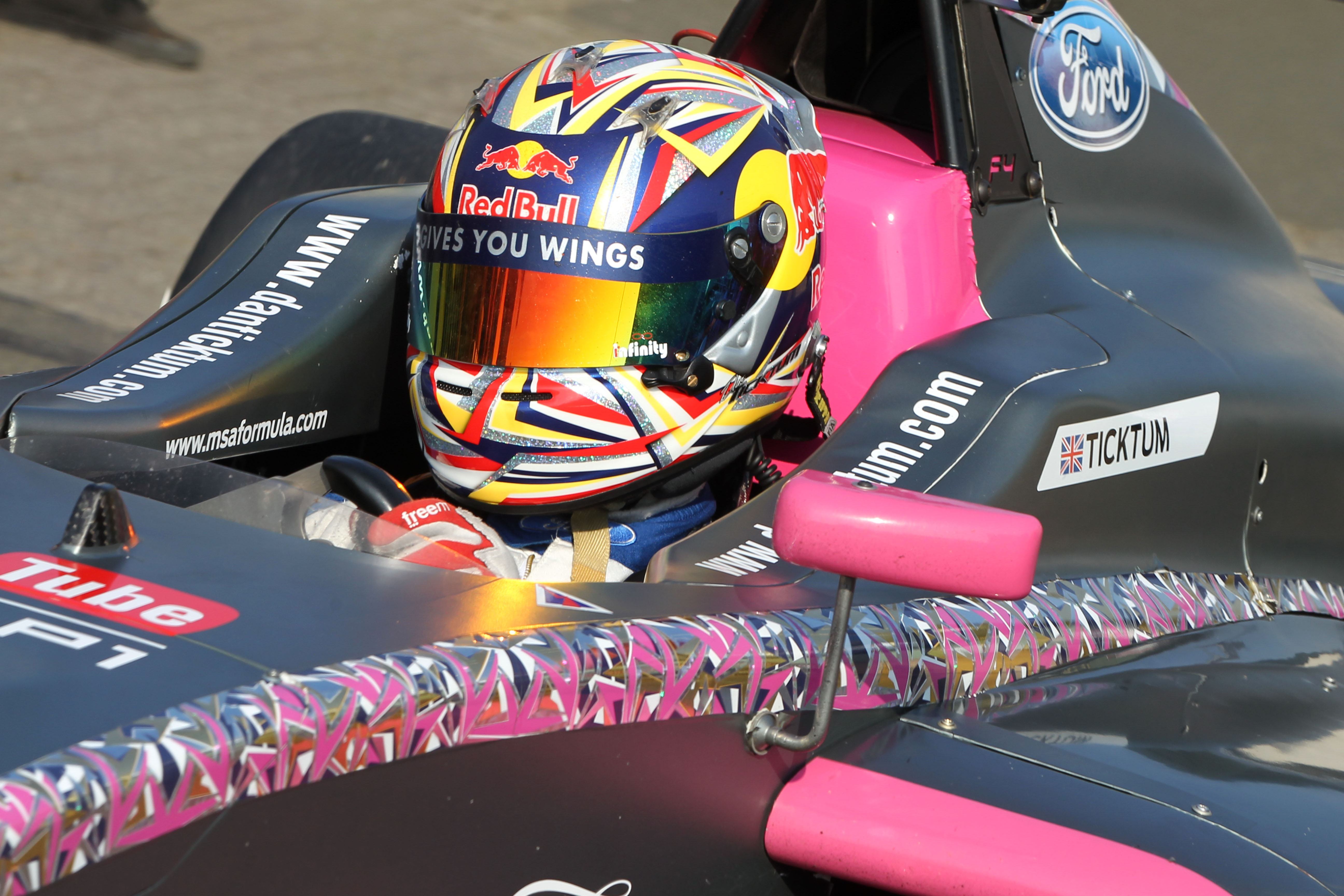 Dan Ticktum